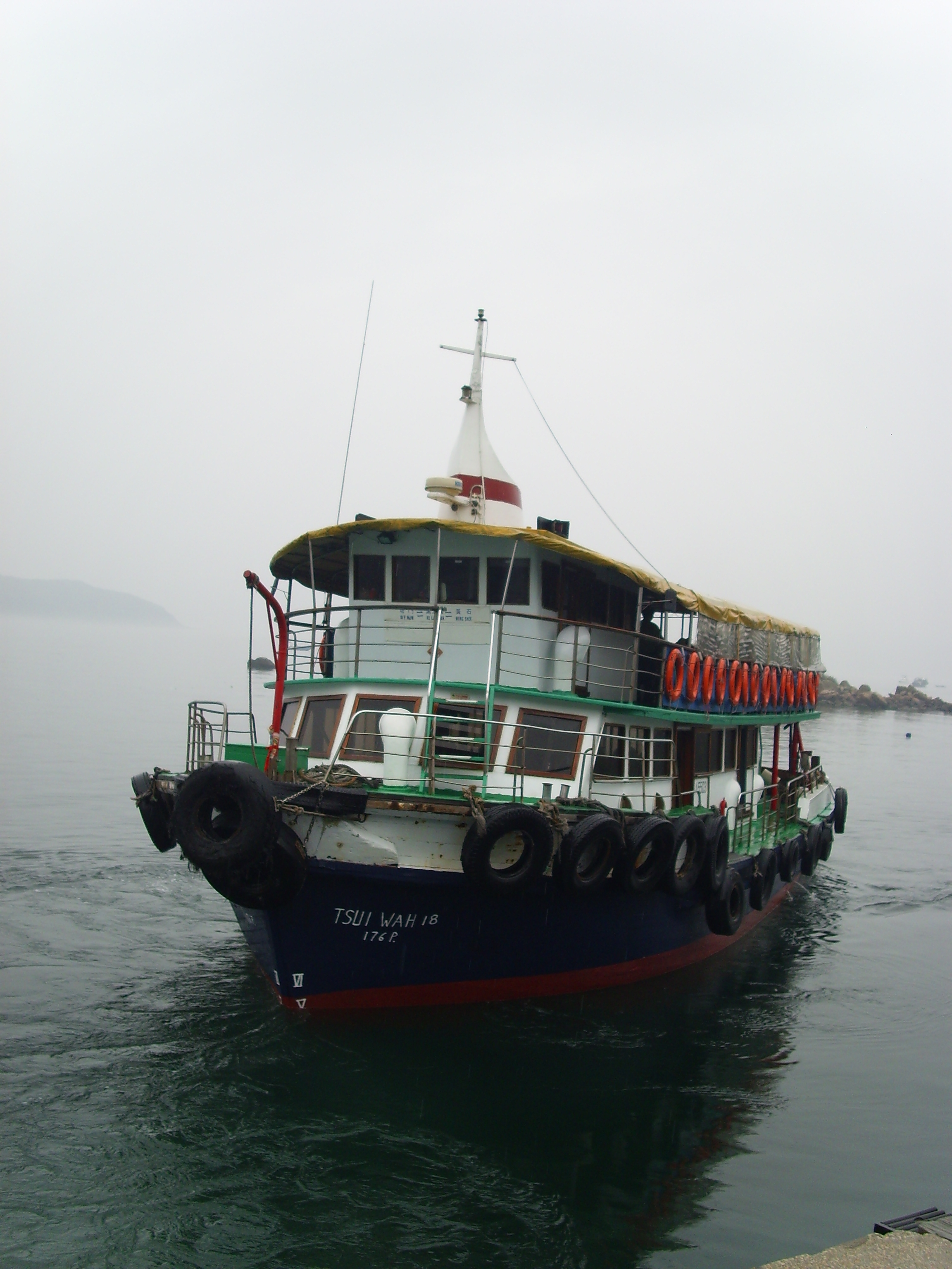 Tsui Wah Ferry Service 翠華船務